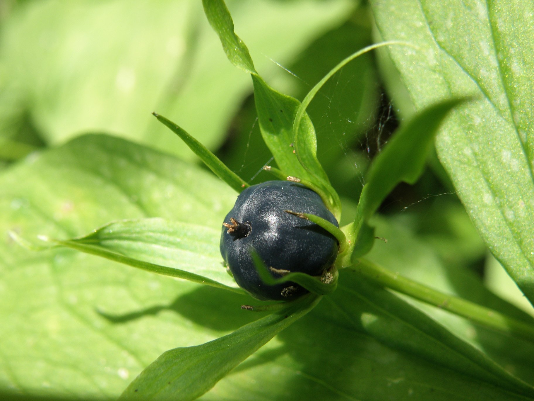 Paris quadrifolia